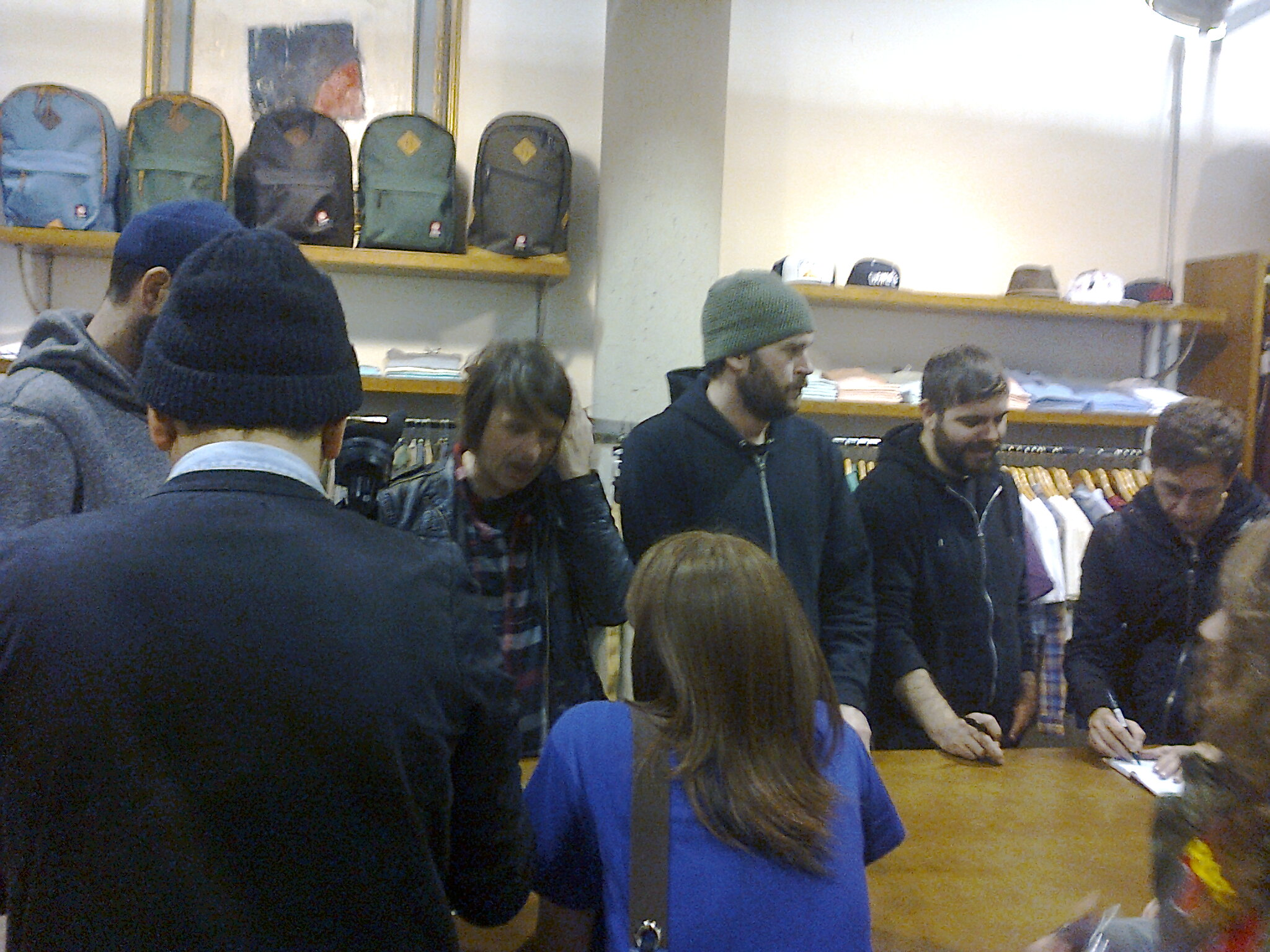 Canadian band Silverstein at a meet&greet in Legnano, Italy, 2012-04-13